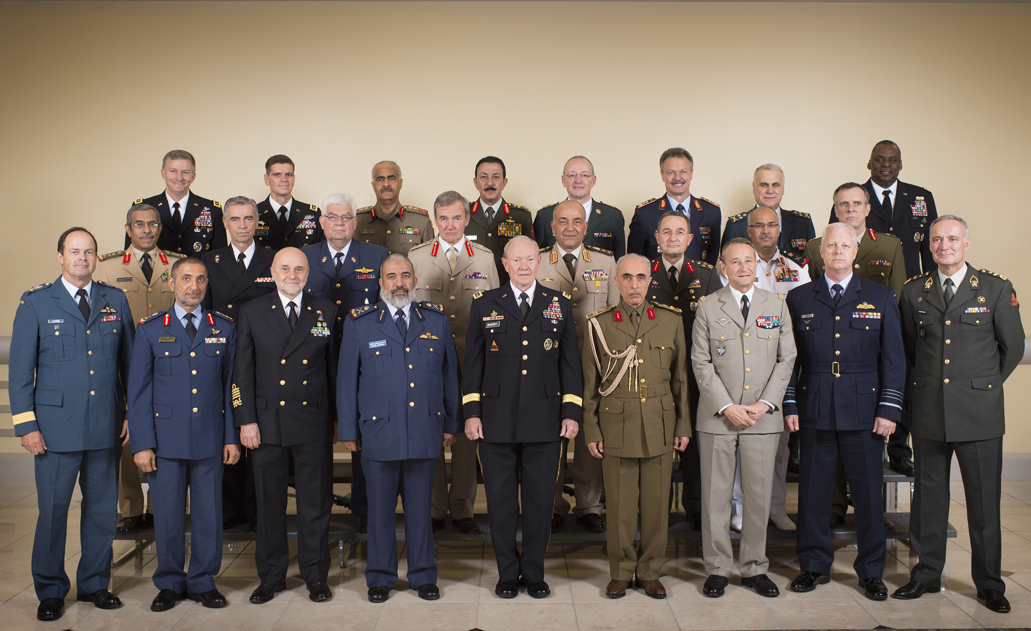 Military leaders from 21 nations take a group photo at the start of a conference at Joint Base Andrews, Maryland, USA, Oct 14, 2014. The conference was part of a ongoing effort to build a coalition and integrate capabilities.